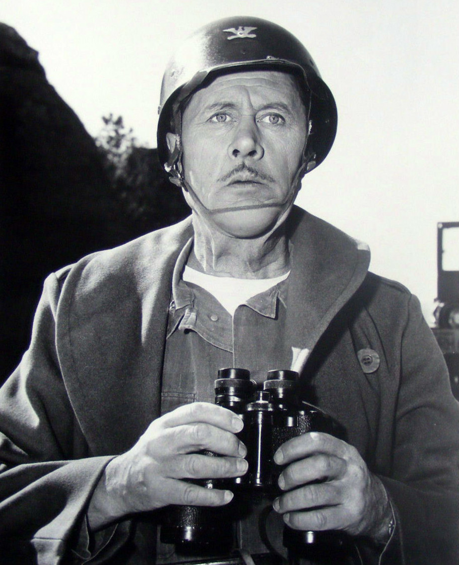 Photo of Allyn Joslyn as Colonel Harvey Blackwell from the television program McKeever and the Colonel.